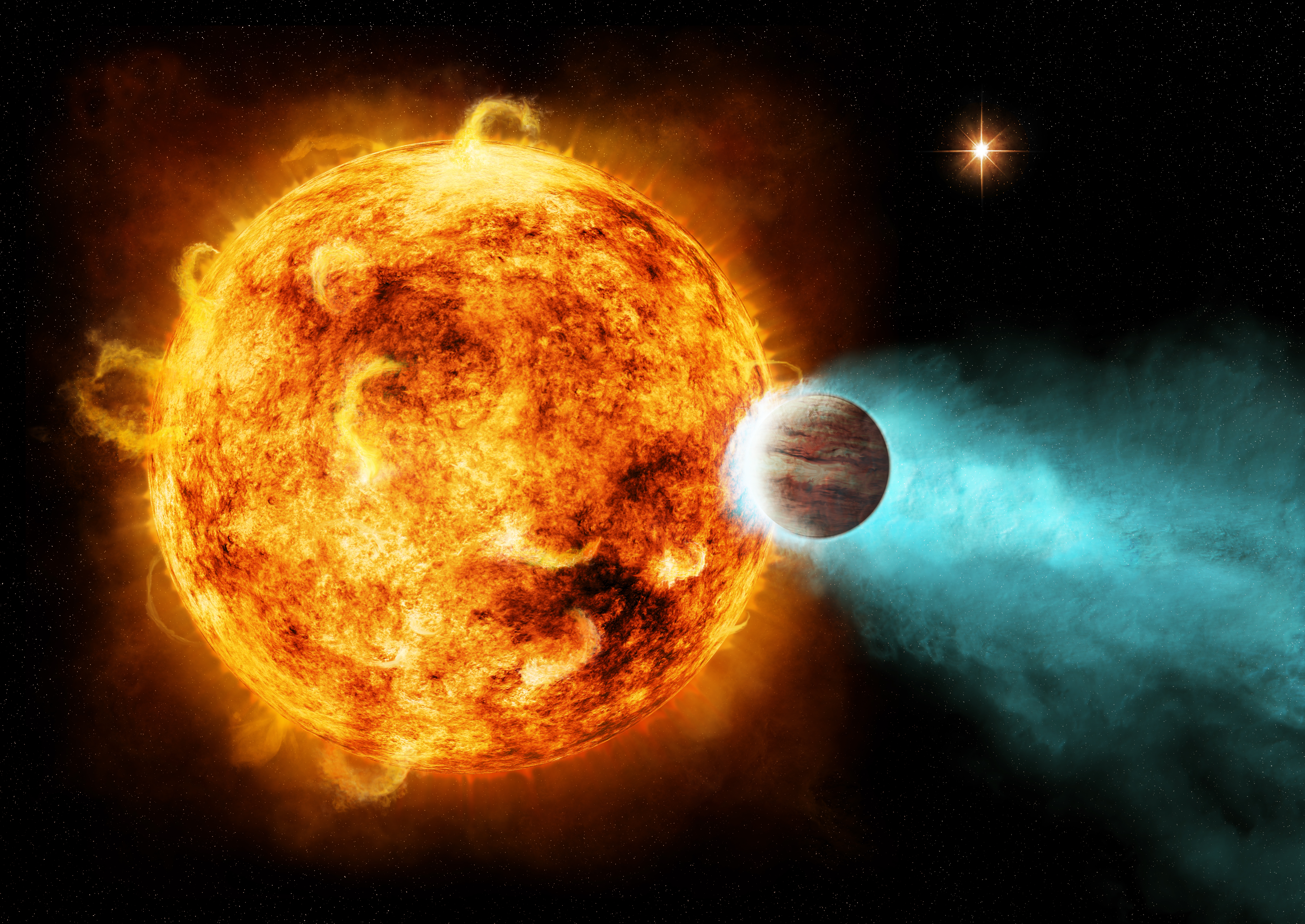 This artist's concept shows the Corot-2 system, which is found about 880 light-years from Earth. Material is being stripped off the planet at a rate of 5 million tons per second as the star pummels it with an intense X-ray barrage.